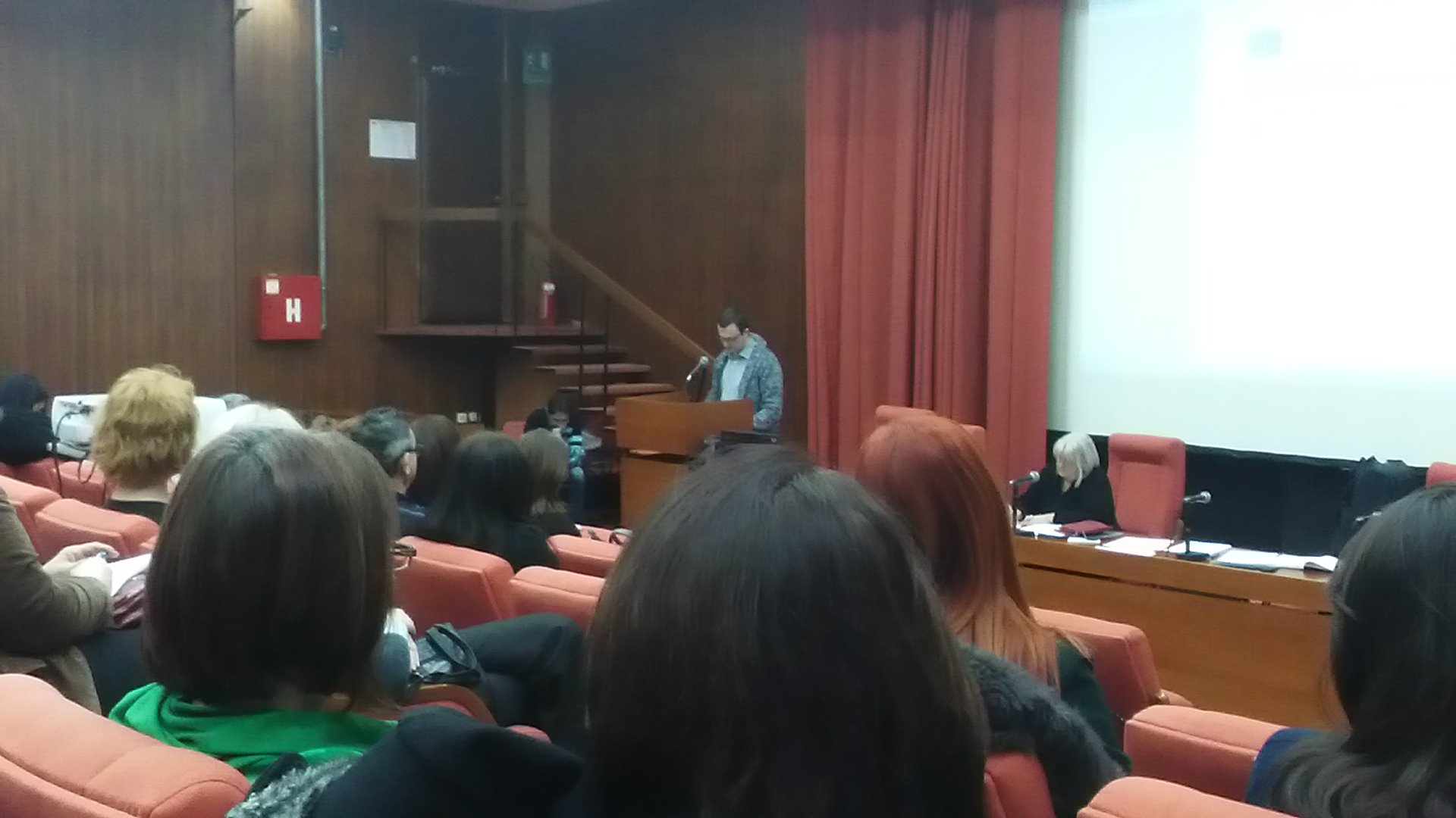 Serbian Library Association assembly, February 23rd , 2018, National Library of Serbia Srpski (latinica): Skupština Društva bibliotekara Srbije, 23. februar 2018. u Narodnoj biblioteci Srbije